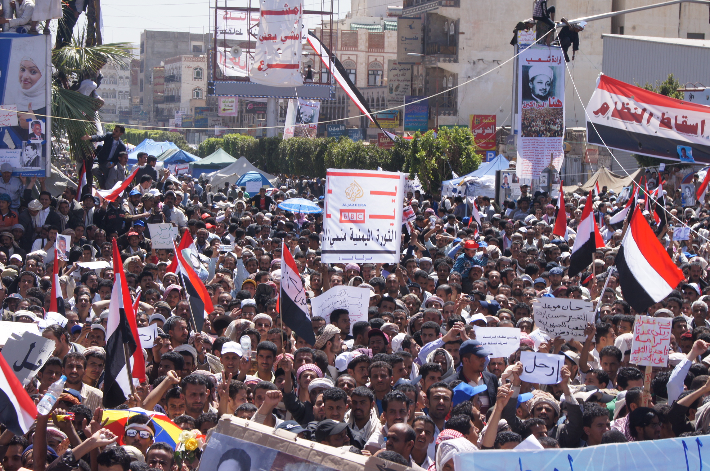 Tens of thousands of protesters marching to Sana'a University, joined for the first time by opposition parties, during the 2011–2012 Yemeni revolution.